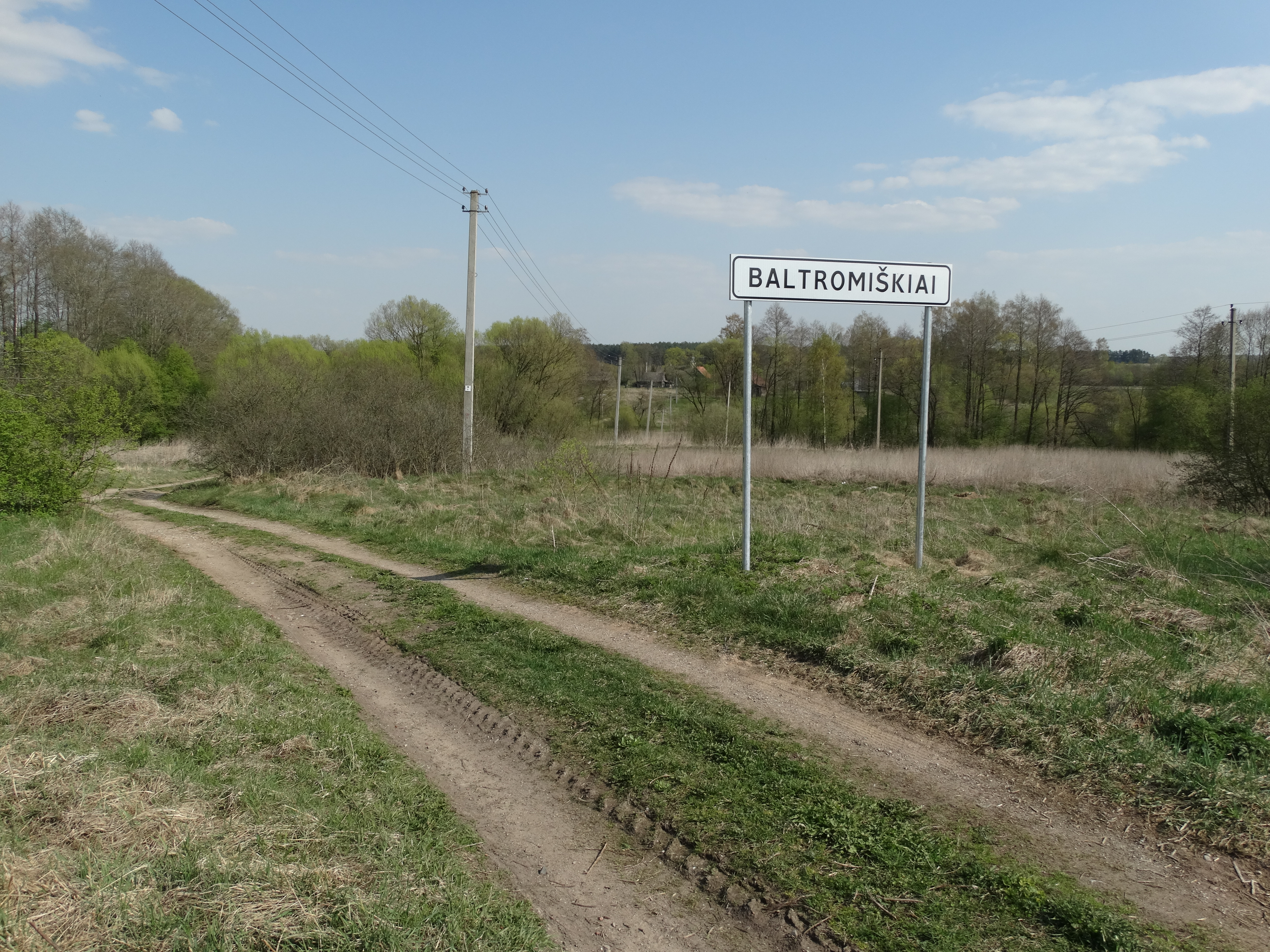 Baltromiškė, Jonava District, Lithuania